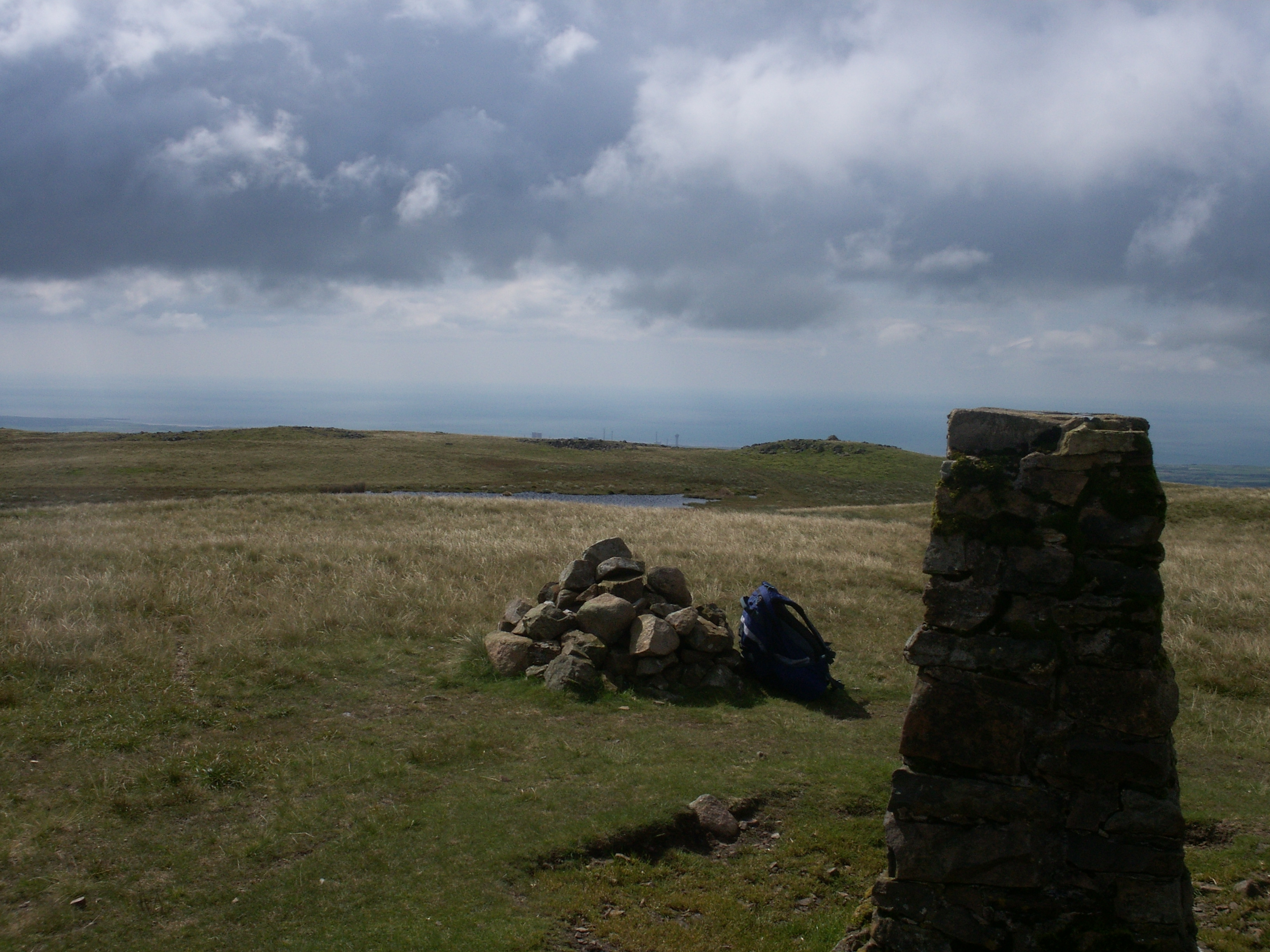 my own photo of the summit of Lank Rigg in the English Lake District.